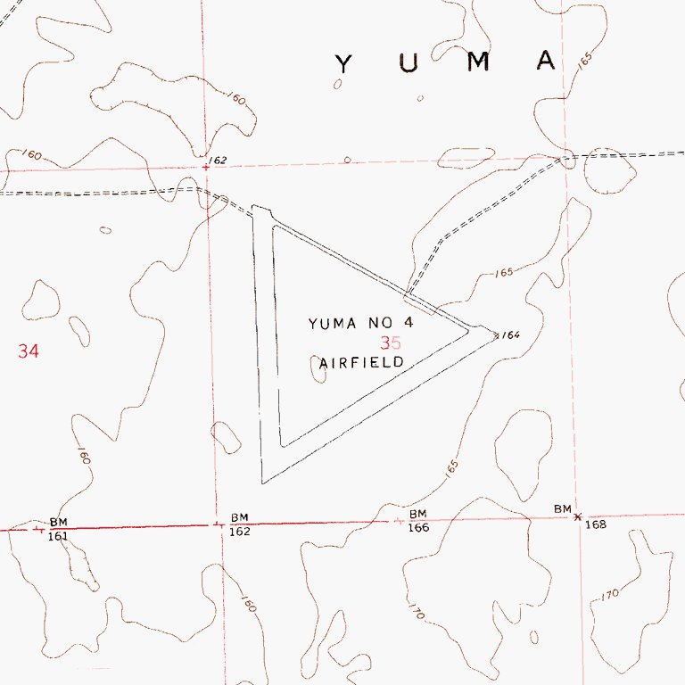 United States Geological Survey USGS topographical map of Rolle Airfield (44A) formally Yuma Army Air Field No. 4 in San Luis, Arizona just south of Yuma, Arizona